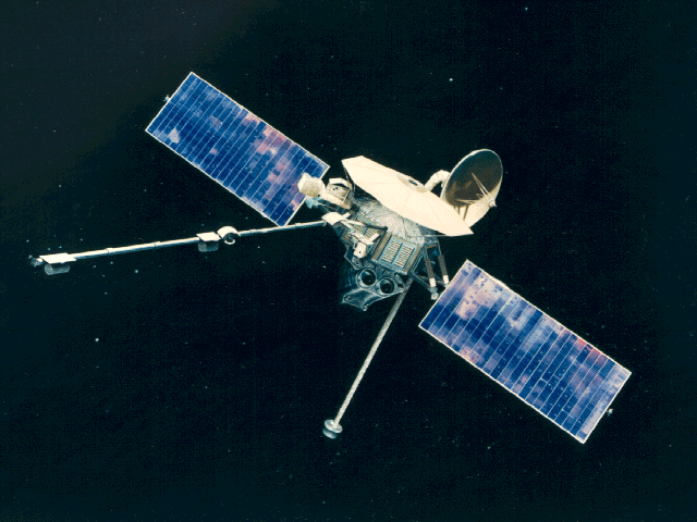 Mariner 10 (The Mariner 10 was a probe sent to Mercury. It managed to map about 40-45% of Mercury.)